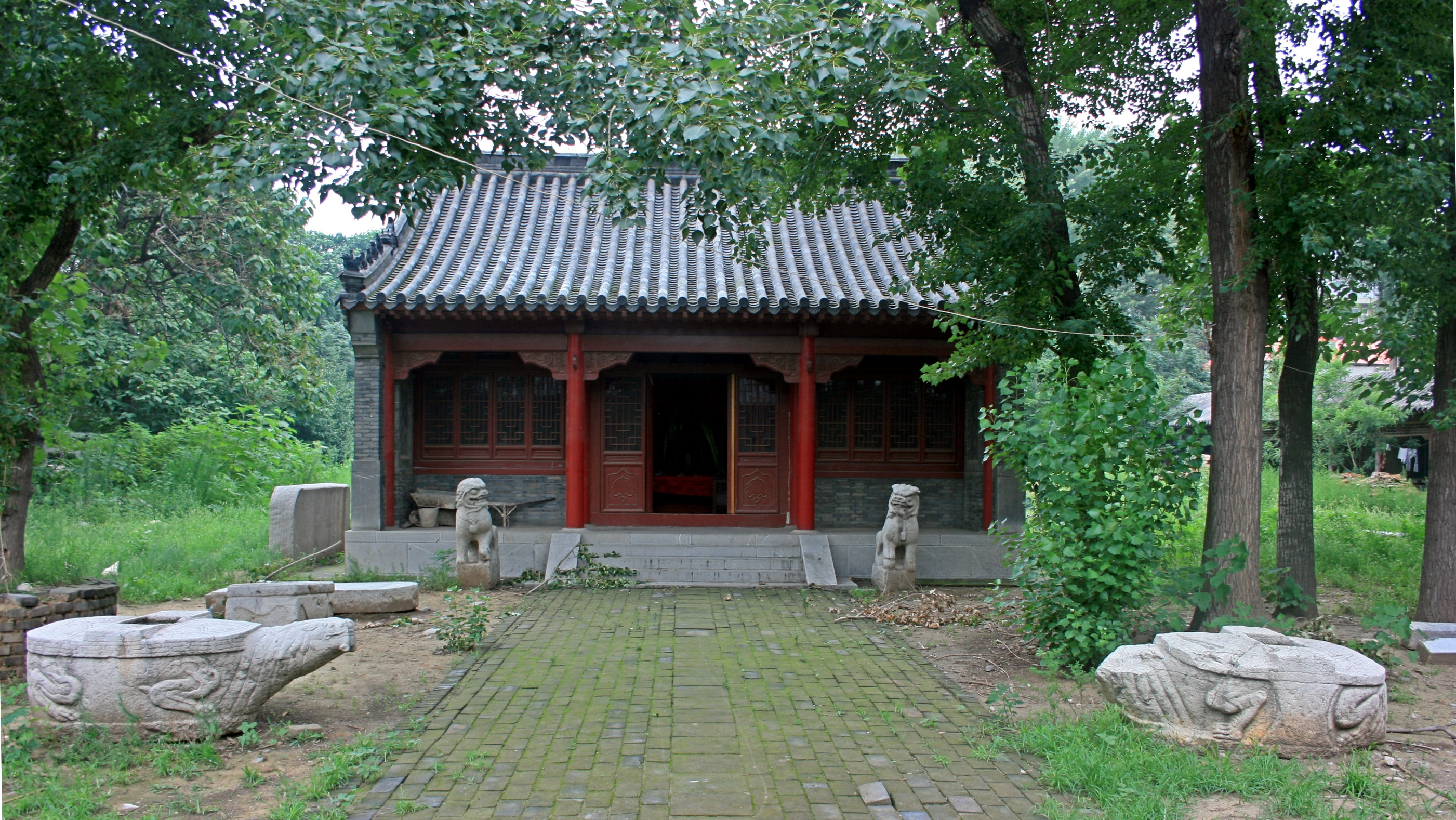 Photograph of a Hall on the site of the tomb of Min Ziqian in Jinan, Shandong Province, China.